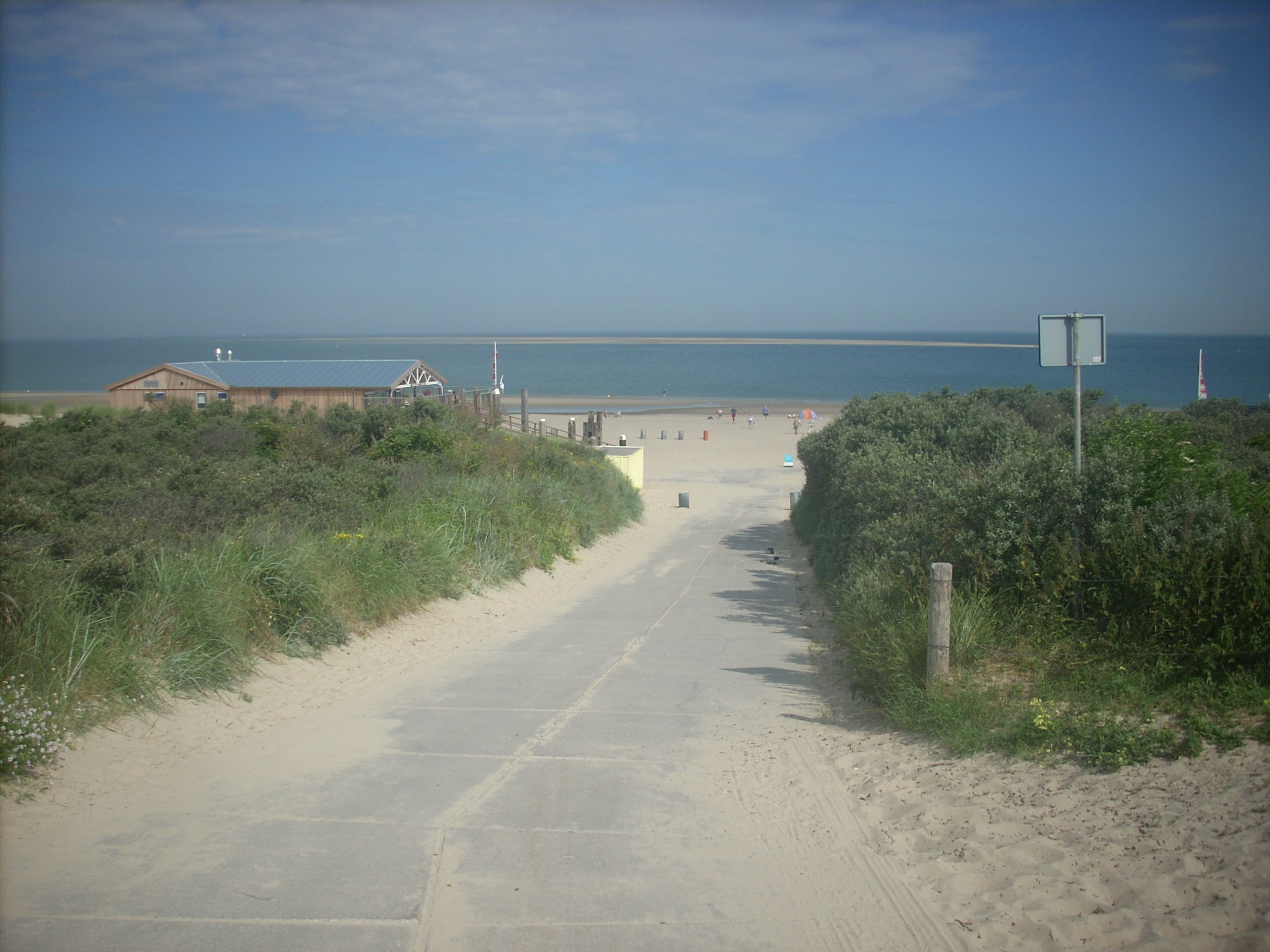 Renesse seaside